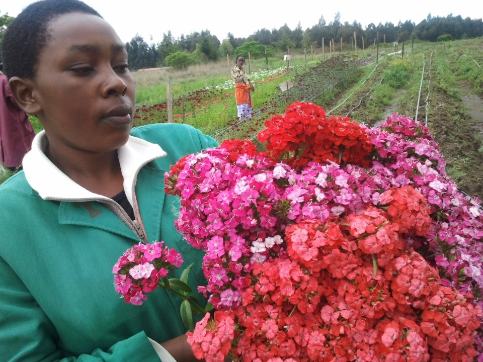 Worker with Summer flowers which grown open field This is an image of "African people at work" from Kenya